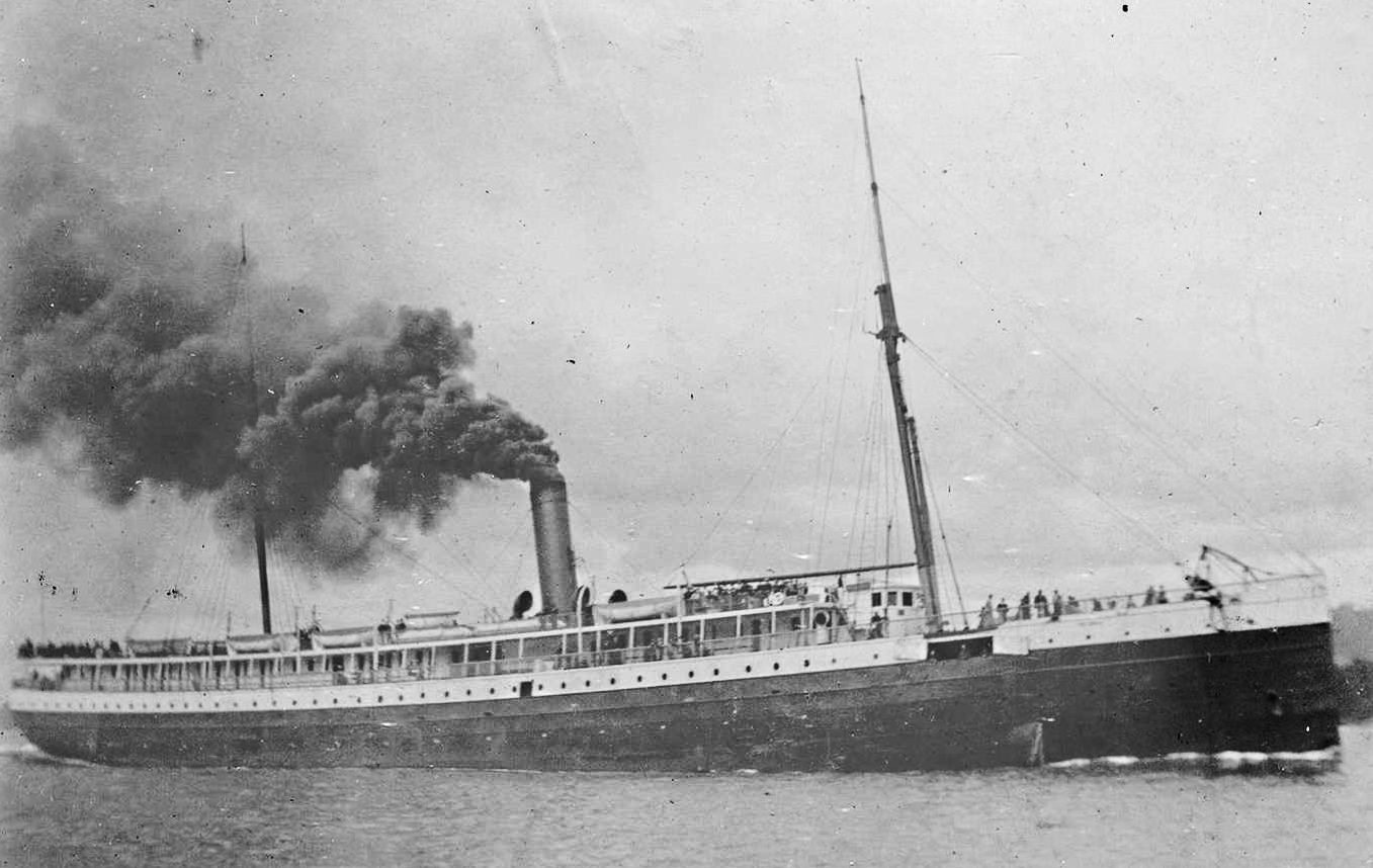 This photograph was dated between 1900 and 1907. Since Columbia existed only between 1880 and 1907, this photograph was therefore published before January 1, 1923. I partially restored and cropped this photograph in a image editing program.